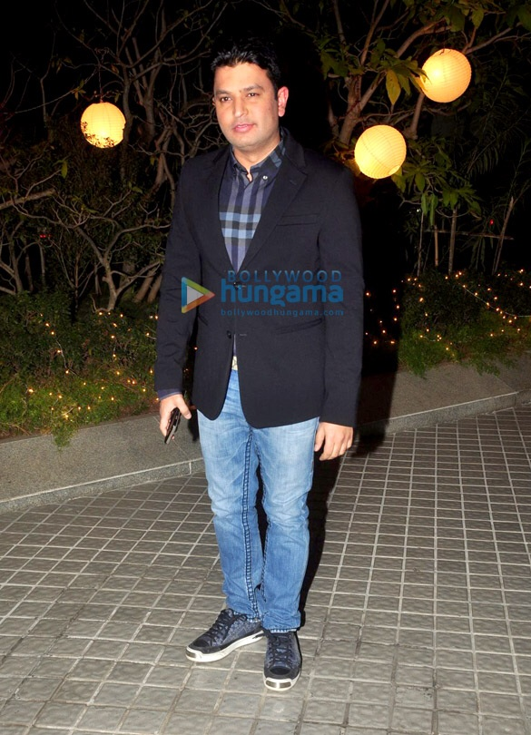 Farah Khan's birthday bash at her house in Andheri